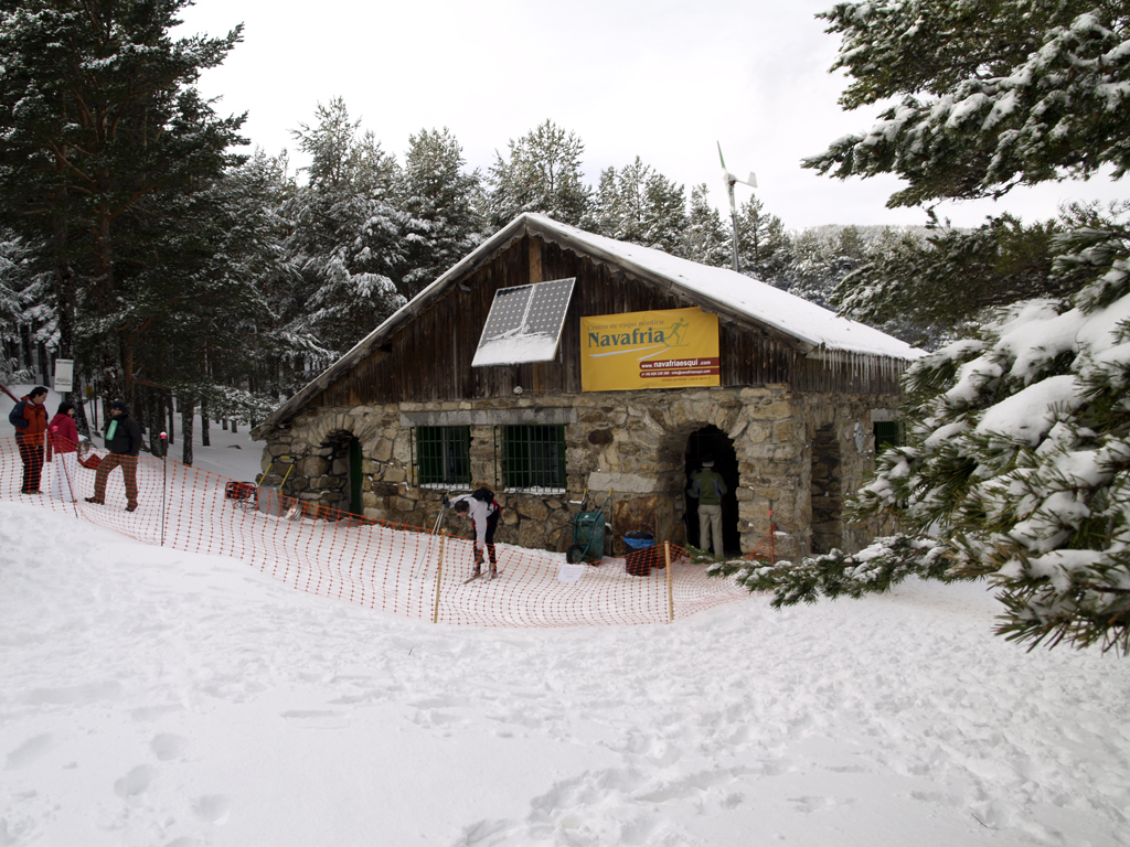 Cross-country ski area in Navafría pass (Sierra de Guadarrama) between the provinces of Madrid and Segovia.